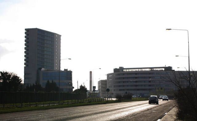 Ballymun Centre, Dublin, Ireland The office blocks are part of the re-development of Ballymun, a deprived part of Dublin